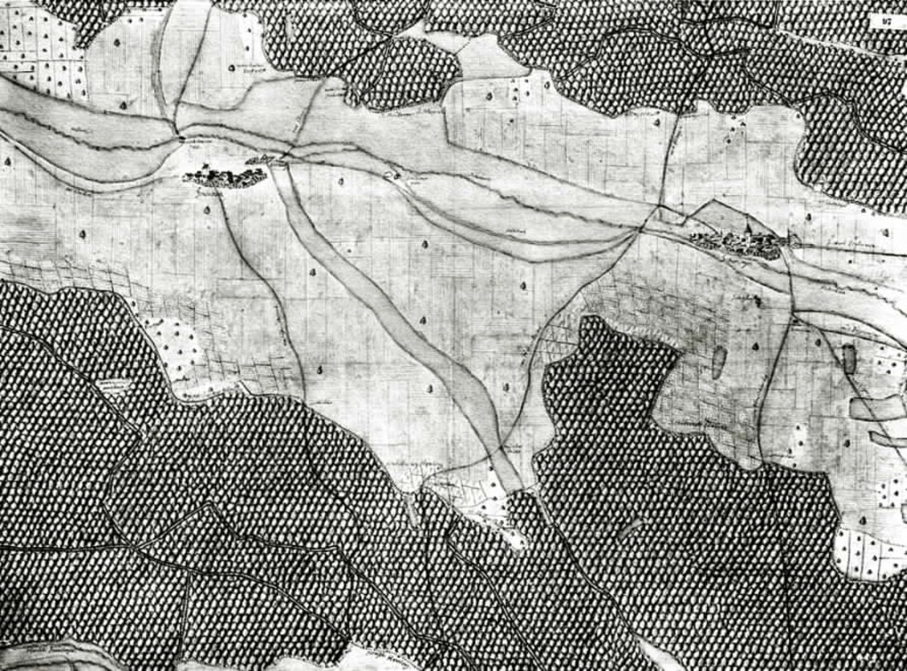 Clip of Andreas Kieser’s forest map